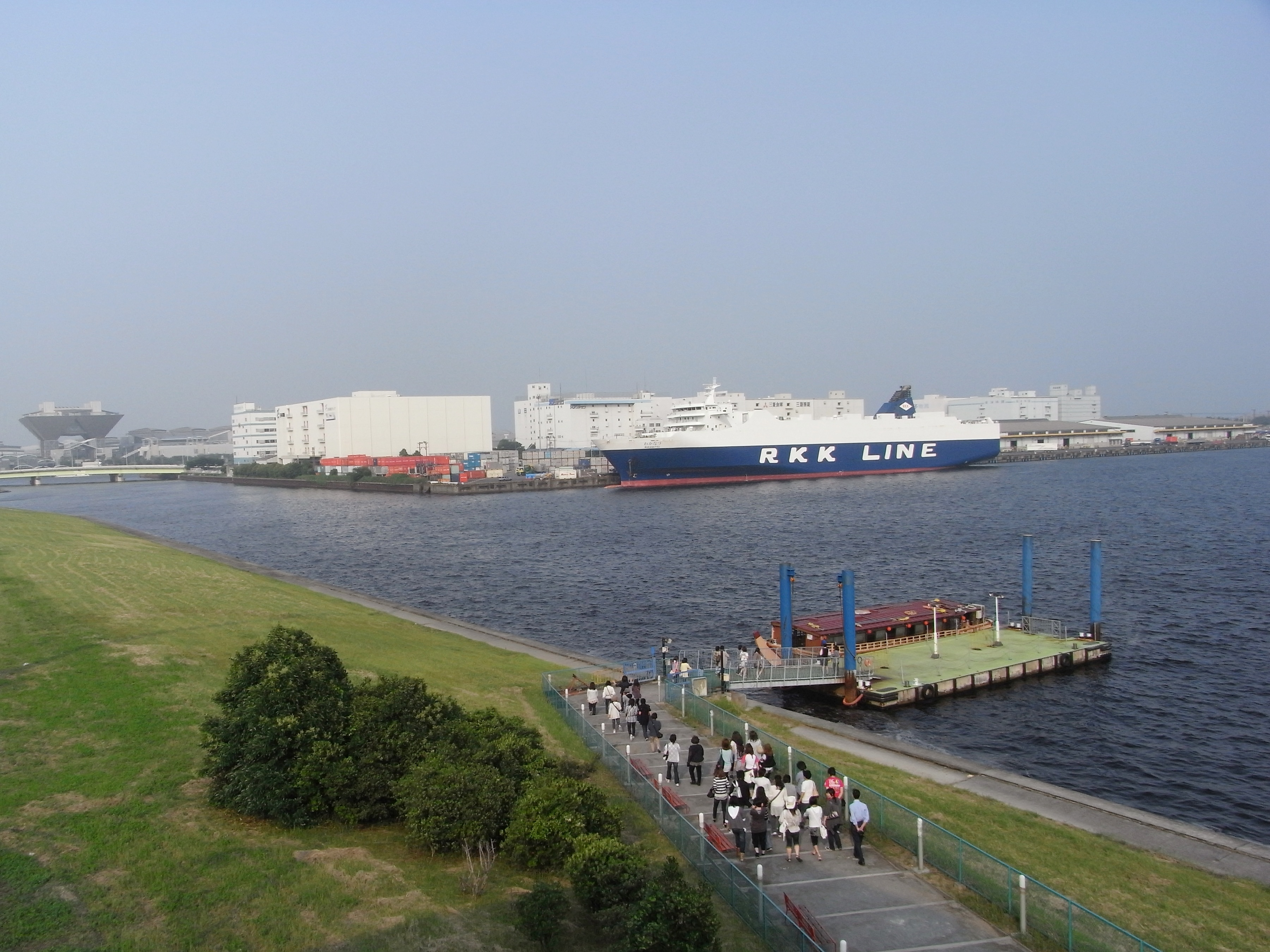 This photo presents the Surrounding view of Palletetown Water Bus Stop.